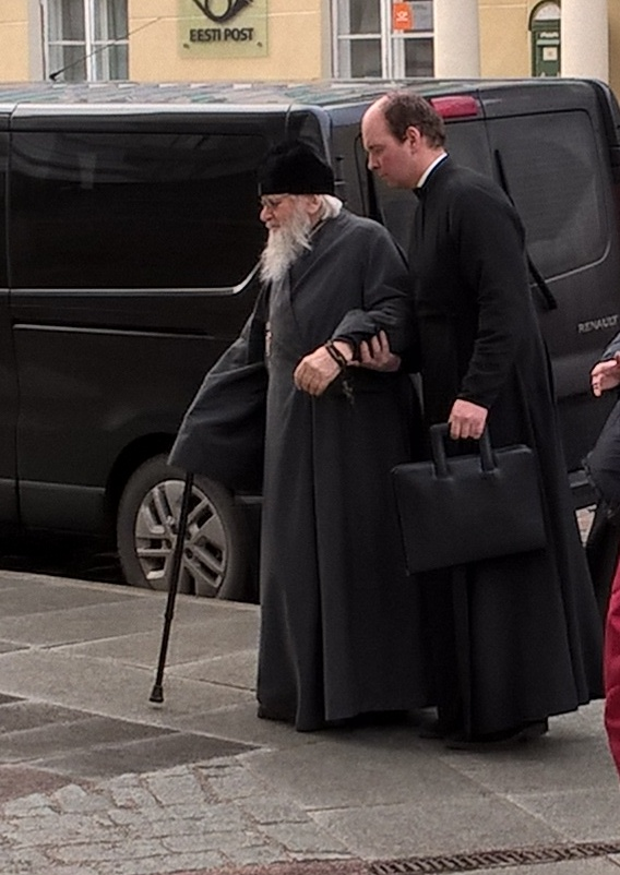 Metropolitan Corneliusz of Tallinn and all Estonia